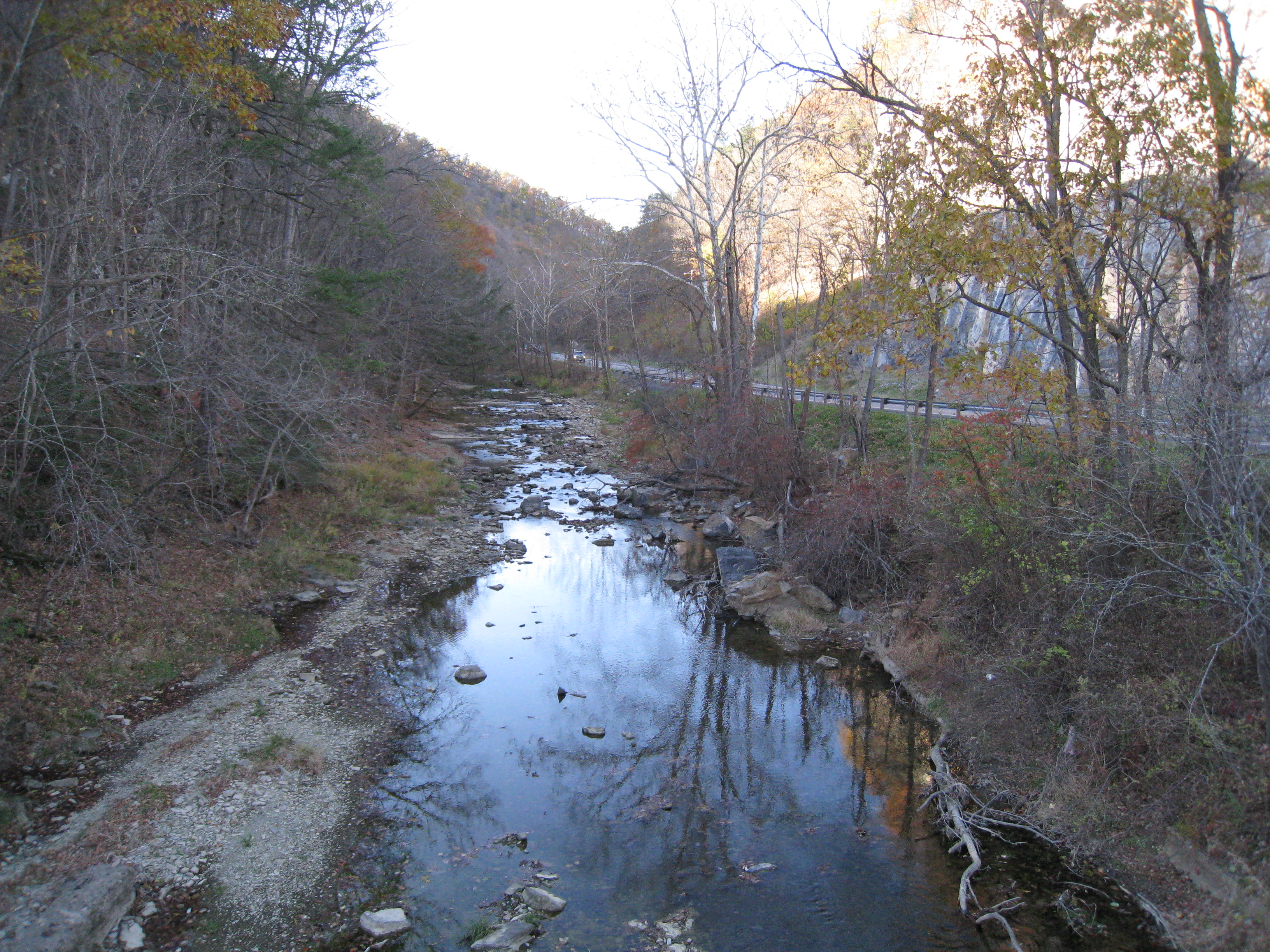 Mill Creek at Mechanicsburg Gap viewed from the Core Road (County Route 50/53) bridge near Romney, West Virginia, United States.